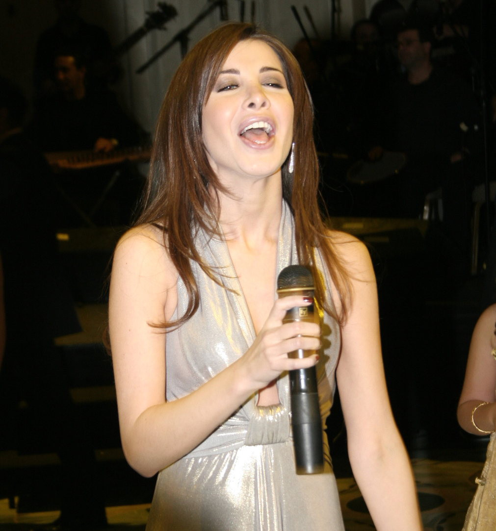 Nancy Ajram performing at a wedding in Cairo.